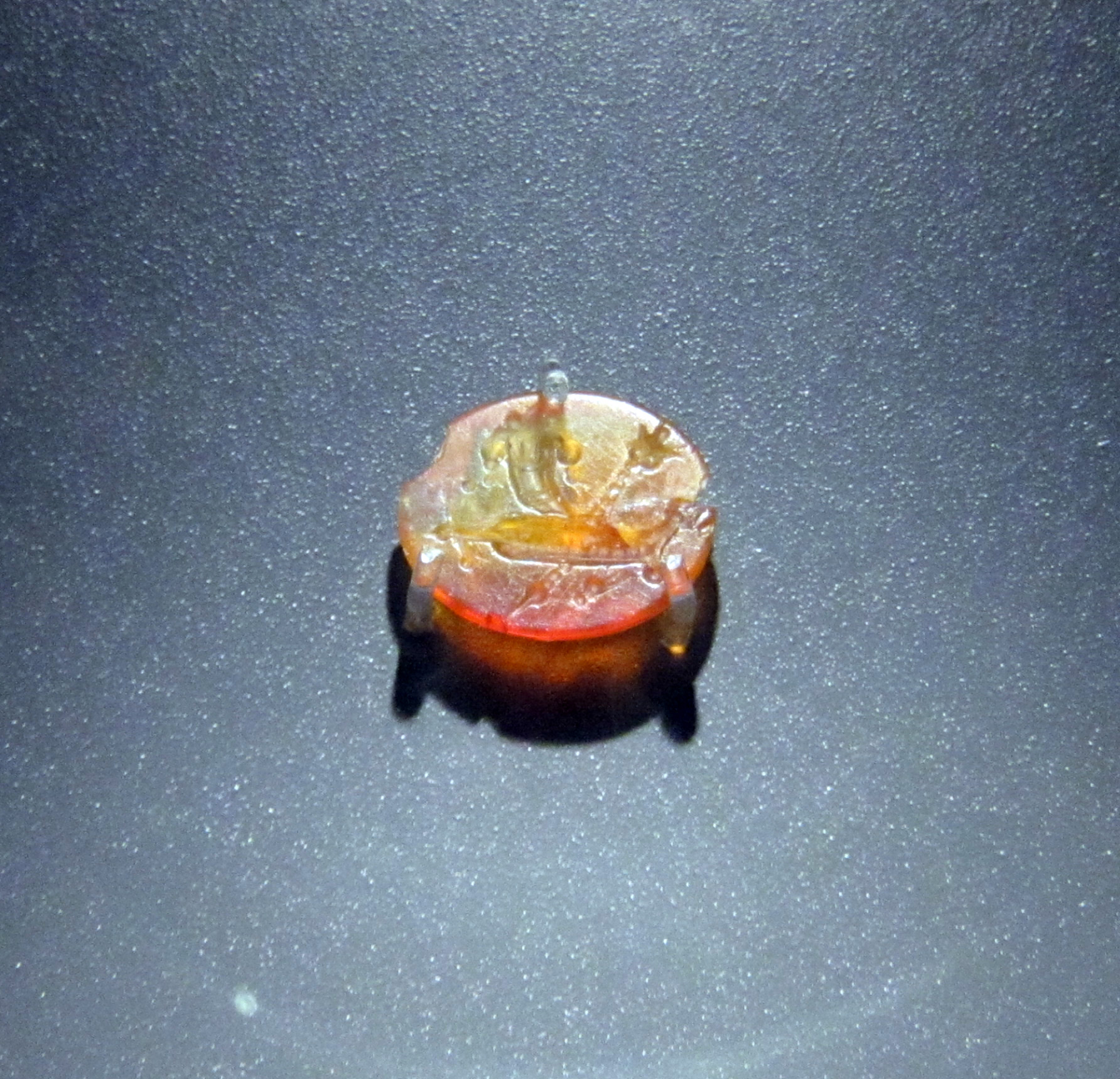 Museum of Prehistory and Archaeology of Cantabria. Inlay with emblem of the Mussidia Iulia family (Castro de la Espina del Gallego, Arenas de Iguña, Anievas y Corvera de Toranzo).